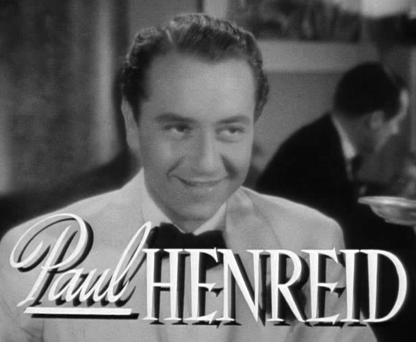 Cropped screenshot of Paul Henreid from the trailer for the film Now, Voyager.